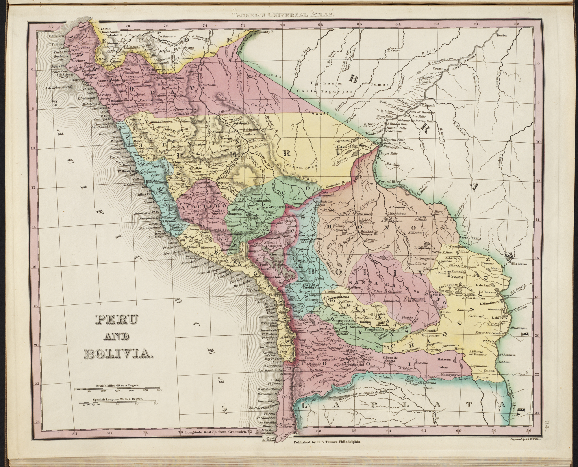 Zoom into this map at . Author: Tanner, Henry Schenck Publisher: Published by the author Date: 1836. Scale: Scales differ. Call Number: G1019.T2 1836